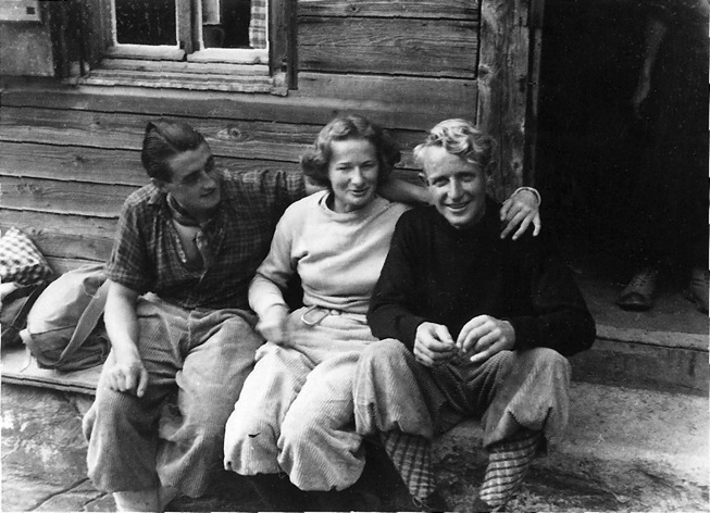 Hans Haidegger, Mäusi Lüthi, Hermann Steuri after the first ascent of Kingspitz NO face, September 26, 1938.